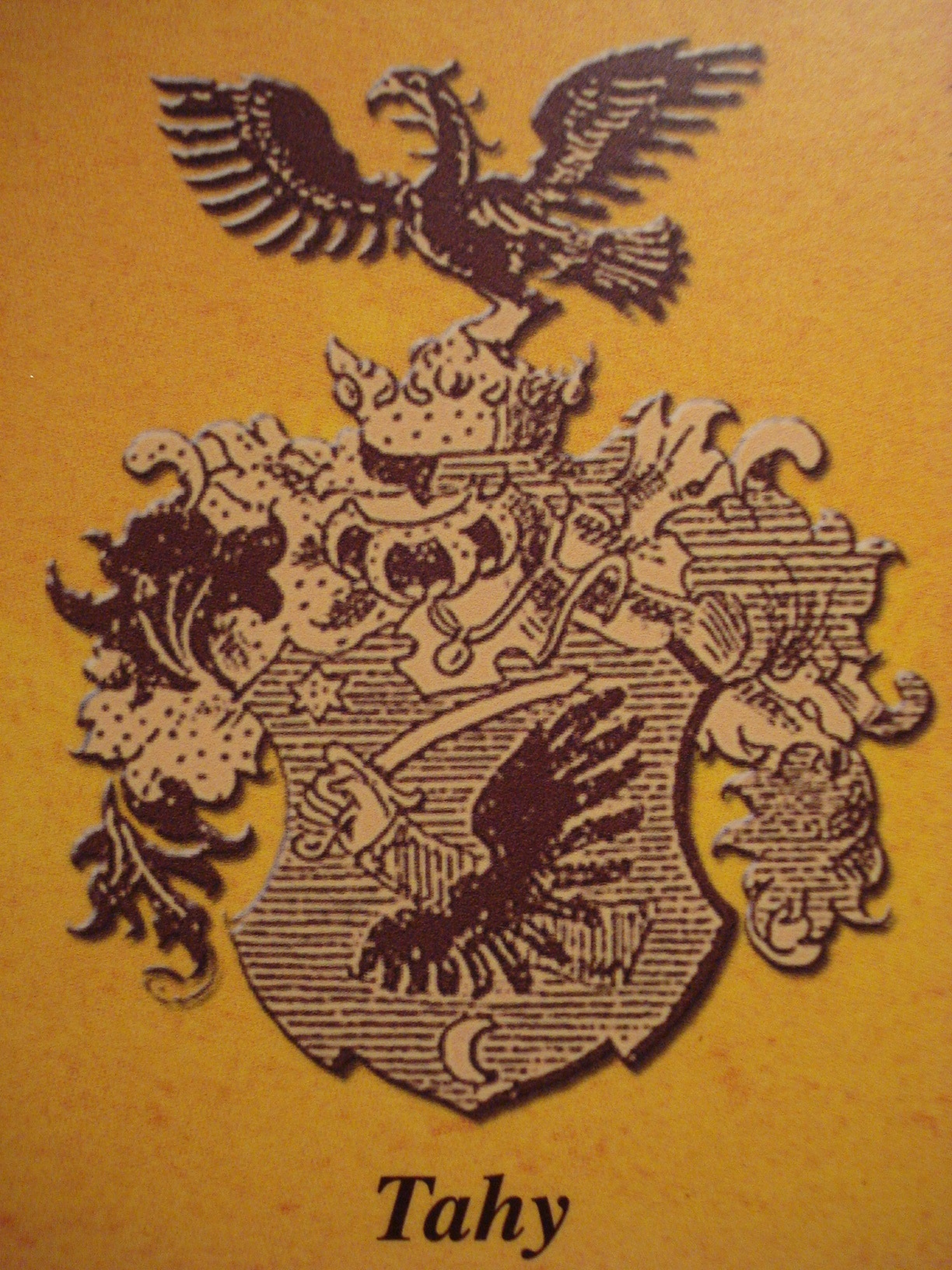 Coat of arms of the Tahy noble family, Croatia